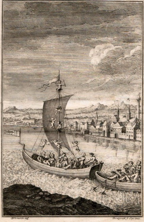 Belinda sails down the Thames to Hampton Court attended by sylphs; a copperplate engraving by Anna Maria Werner from the 1744 edition of Luise Gottsched’s translation, Der Lockenraub